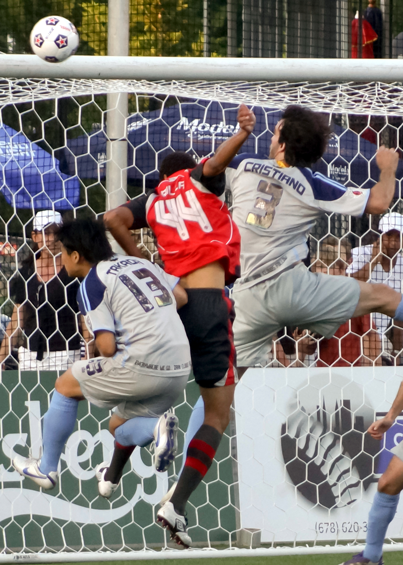 Rilla playing for Atlanta Silverbacks on April 28, 2012